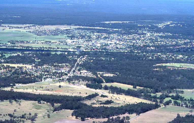 nowra, australia